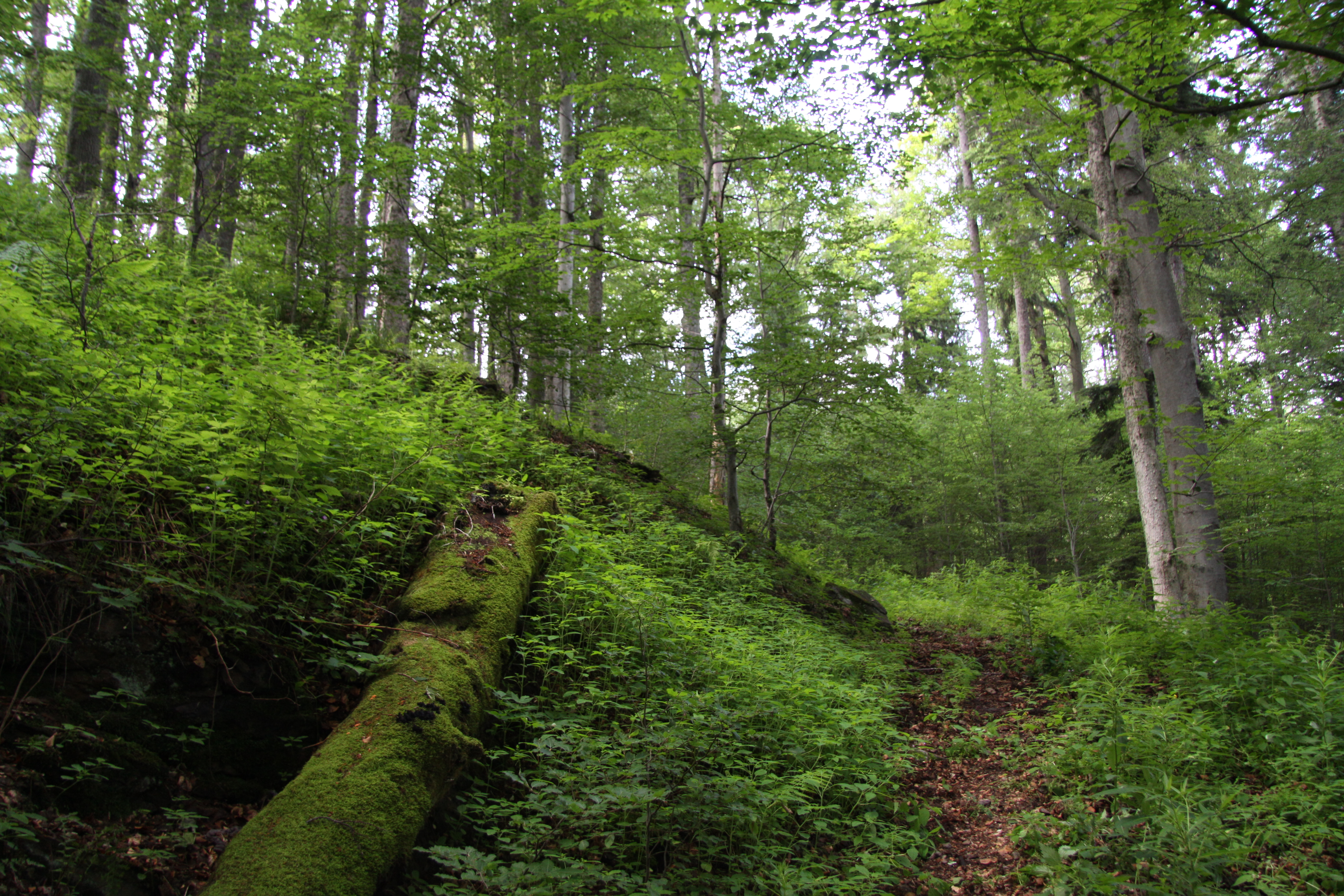 Natural monument Jilmová skála on the flanks of Boubín mountain near Kubova Huť, Prachatice District, Czech Republic - Google Maps - Google Earth